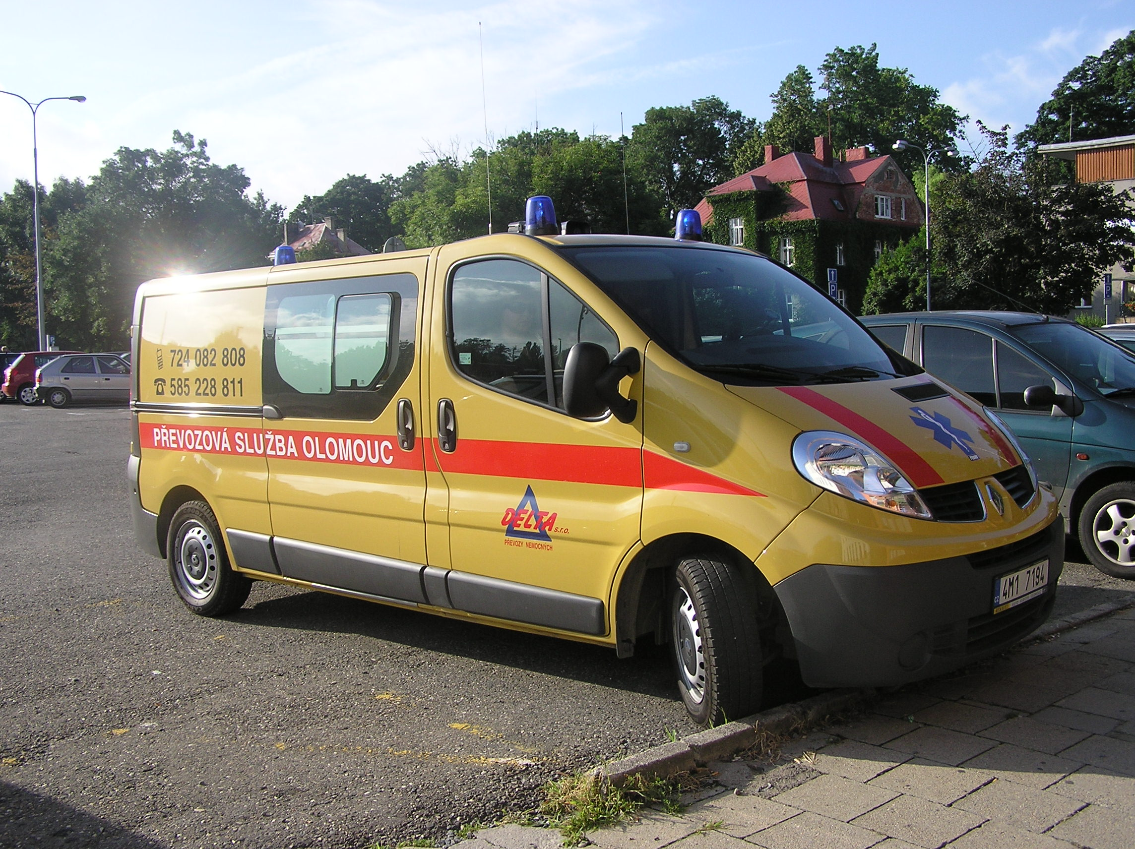 Ambulance vehicle in the Olomouc, Olomouc Region, Czech Republic It is not vehicle of the EMS